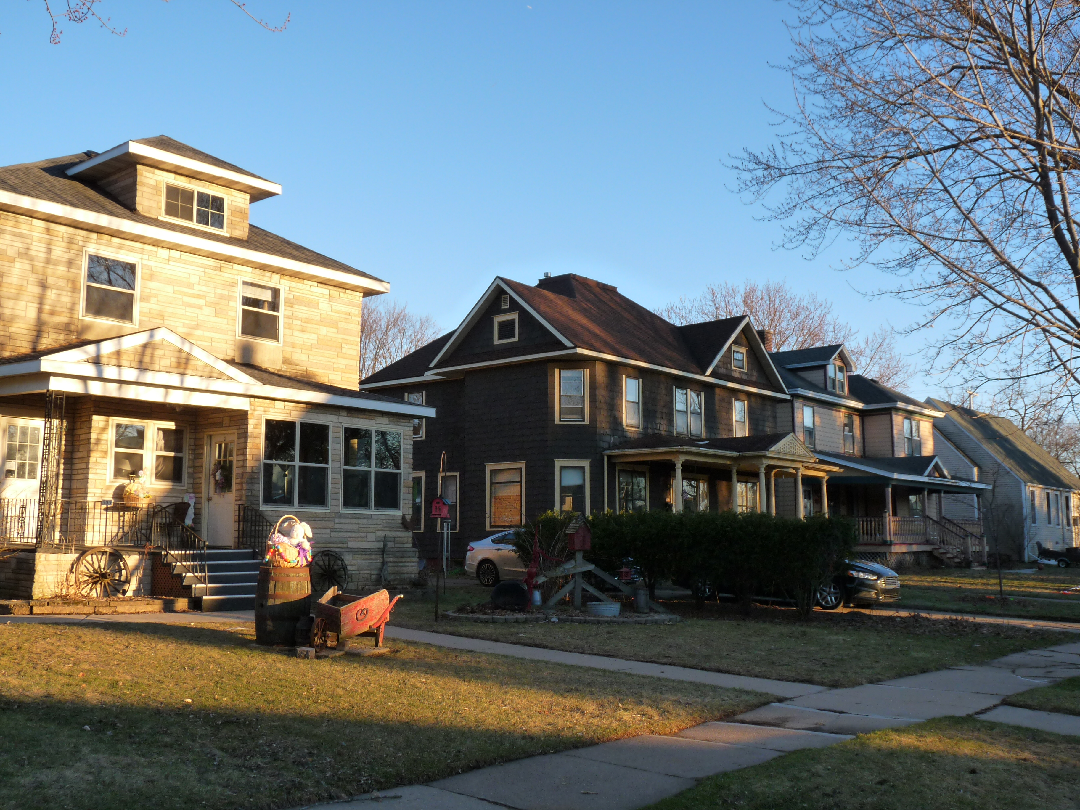 Houses on the S. Cedar in Marshfield, Wisconsin, in the Pleasant Hill historic district.